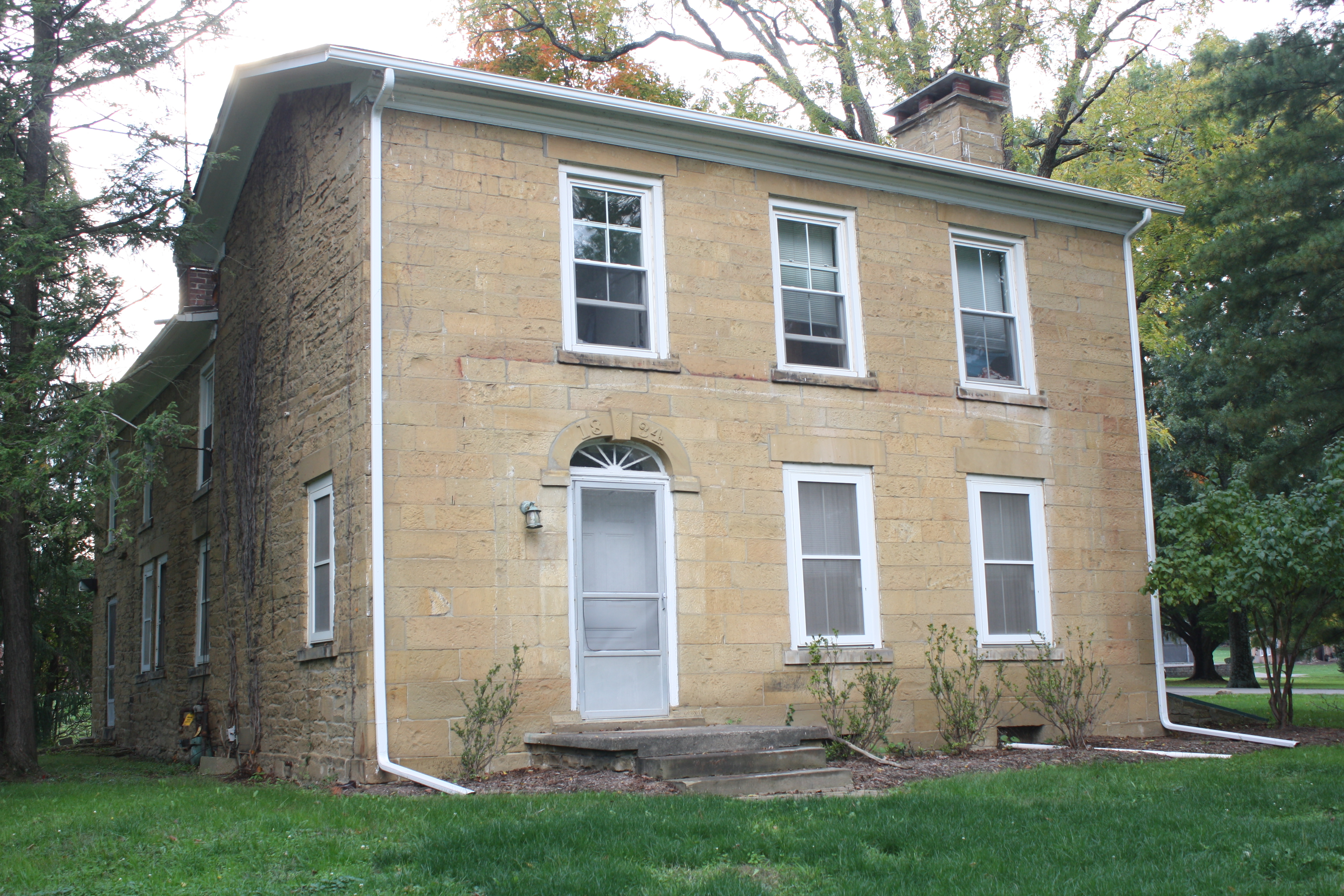 A.A. Bancroft House